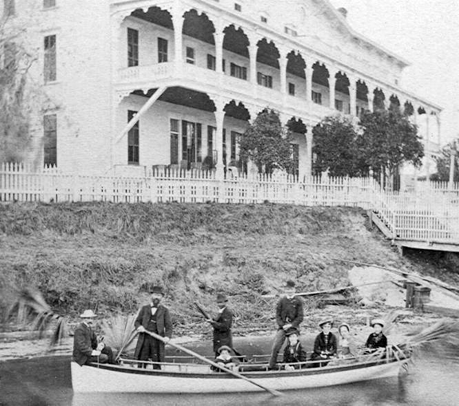 The Larkin House, Palatka, Florida. This was the city's best hotel, which could accommodate 250 people.